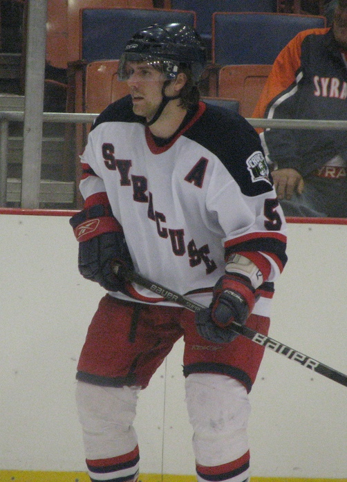 Jonathan Sigalet Rochester Americans